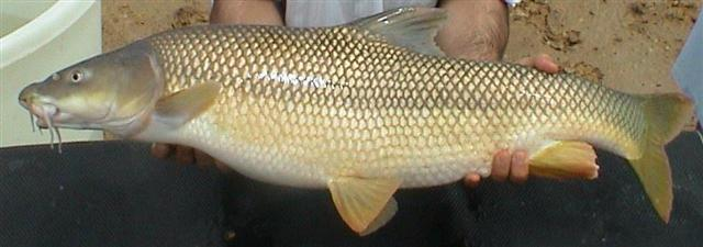 Iran, Khuzestan province,2002